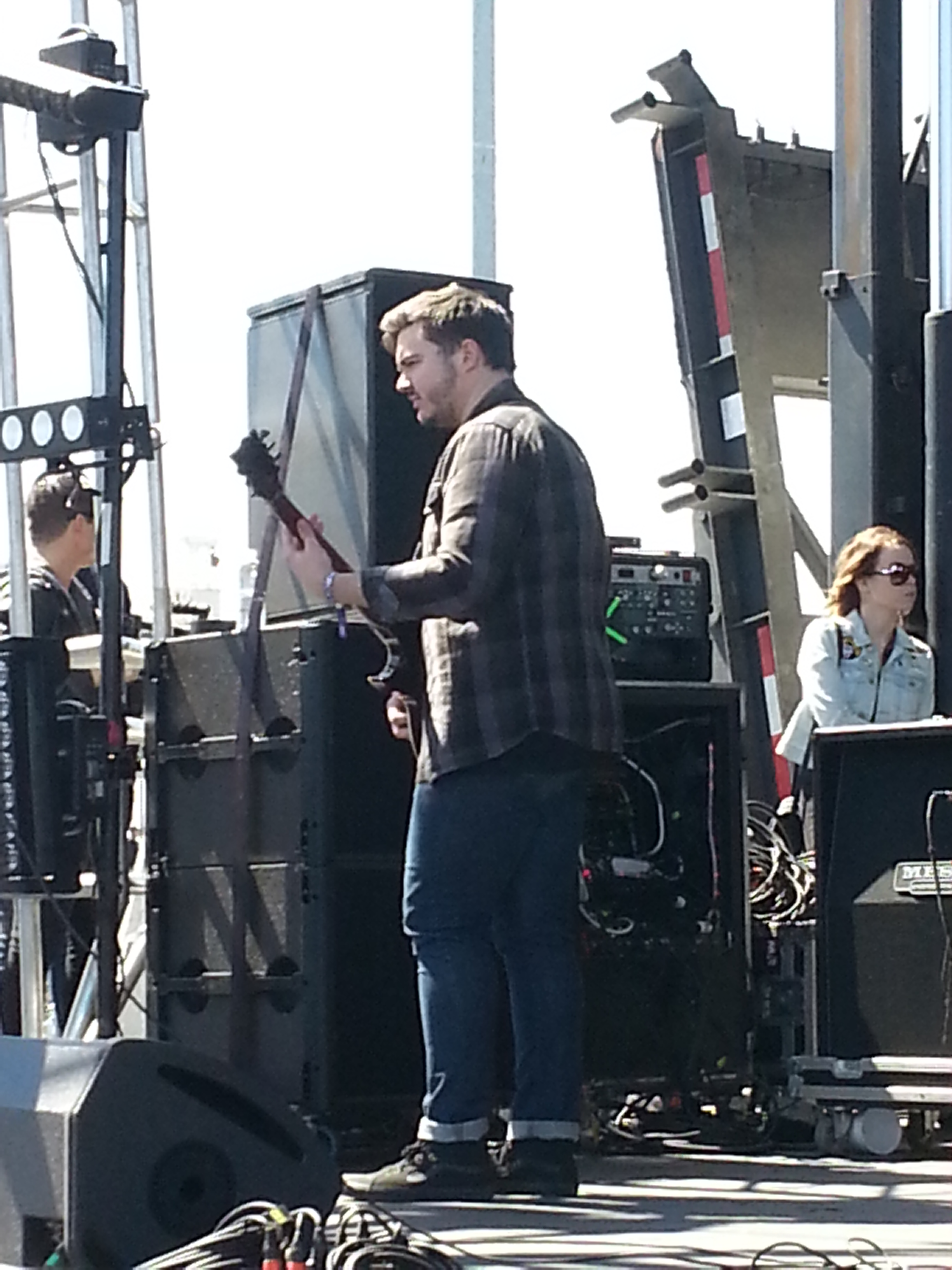 Austin Dore of Myka Relocate